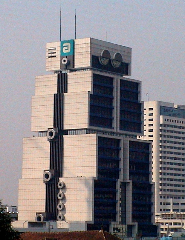 So called because of its architecture.